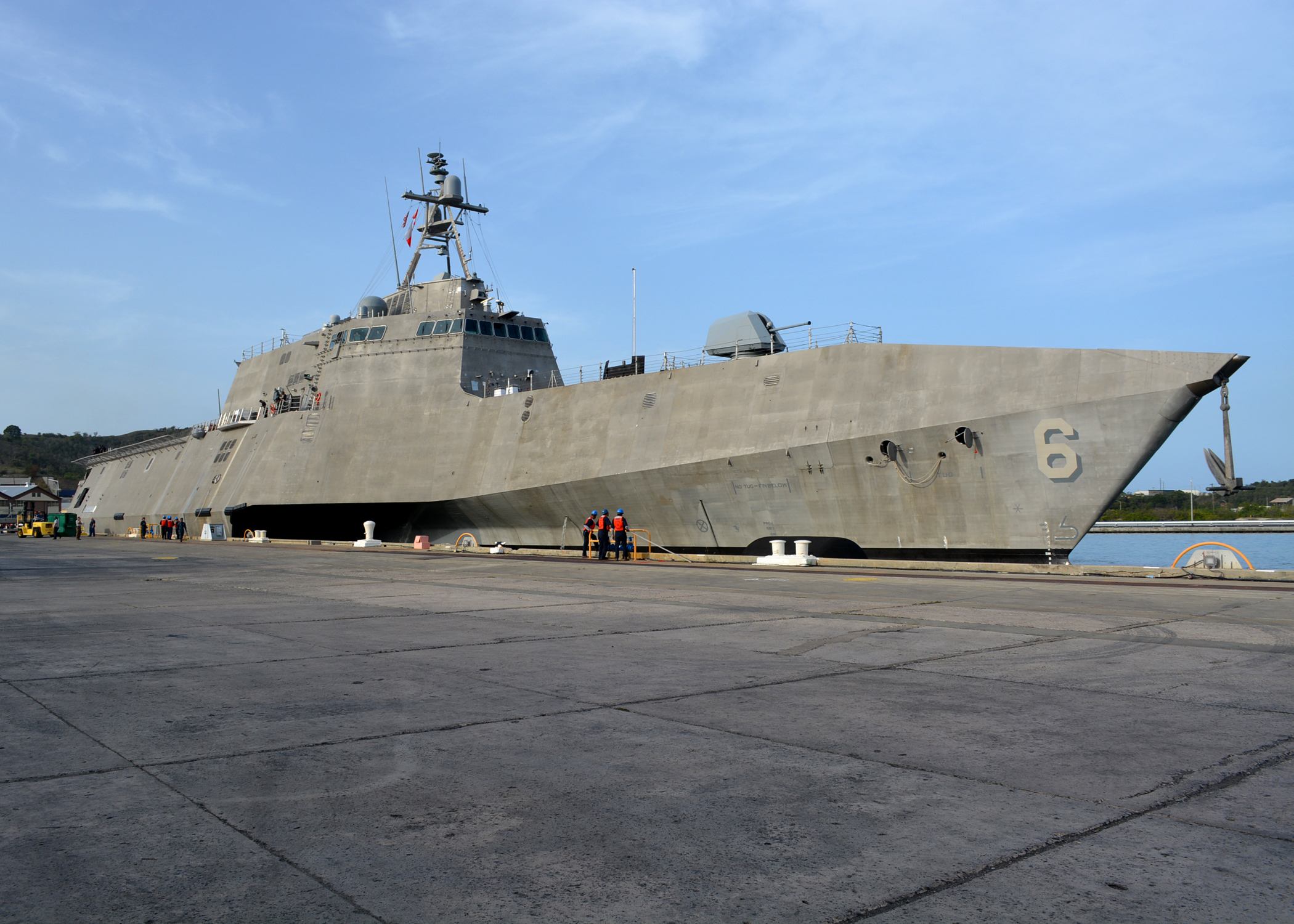 The U.S. Navy littoral combat ship USS Jackson (LCS-6) moors pier side at Naval Station Guantanamo Bay, Cuba, to refuel. The ship was in transit to its homeport in San Diego, California (USA), after having successfully completed Full Shock Trials.